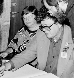 Poul Anderson during a visit to Poland—at Polcon 1985